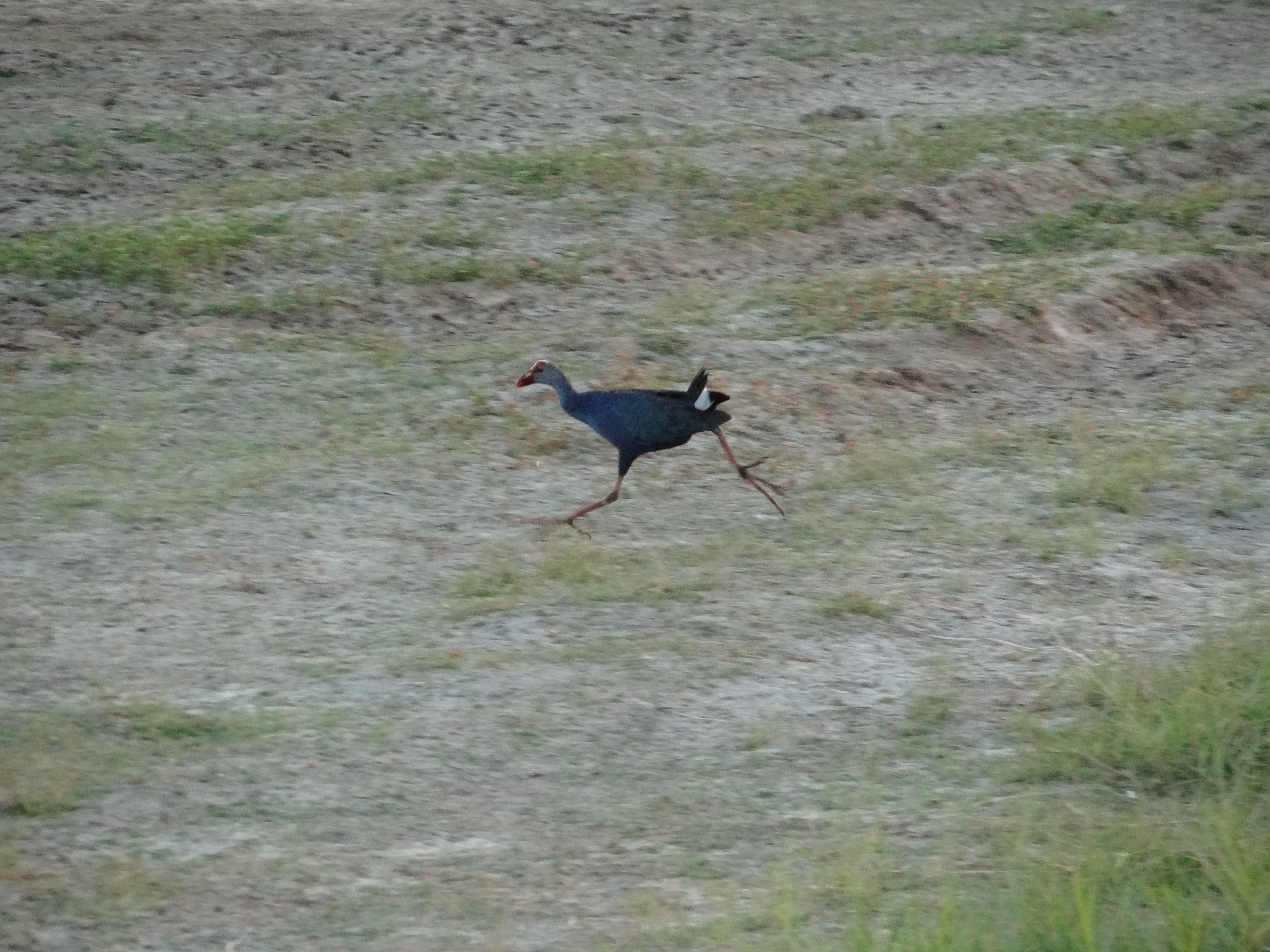 bird at vellode bird sanctuary picture by Dr.shivram sagar